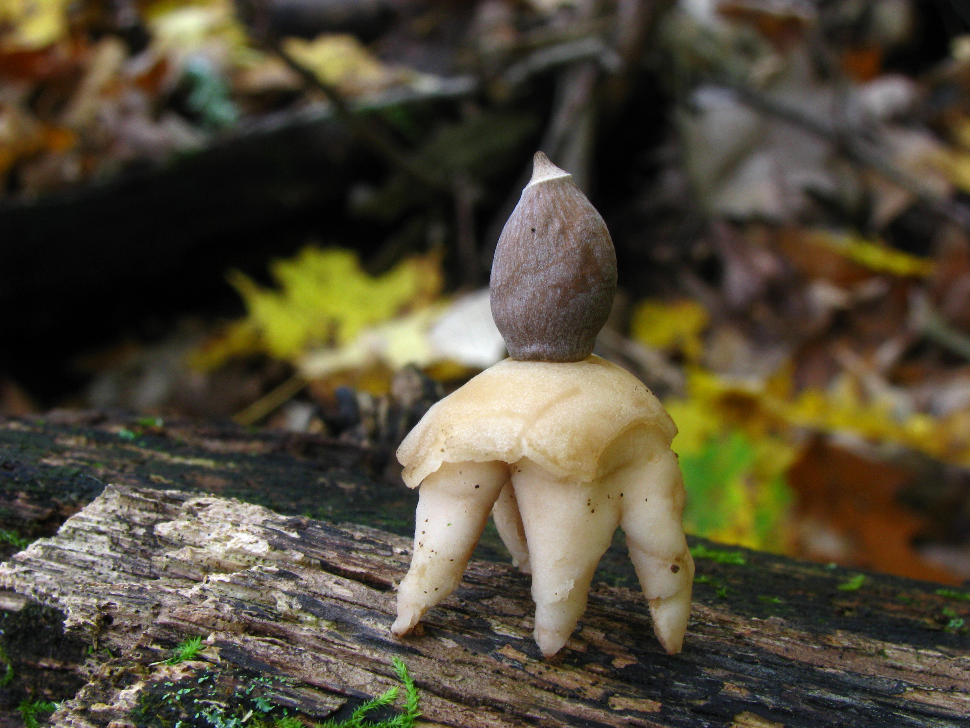 The earthstar fungus Geastrum quadrifidum Pers. Specimen photographed in Strouds Run State Park, Athens, Ohio, USA.